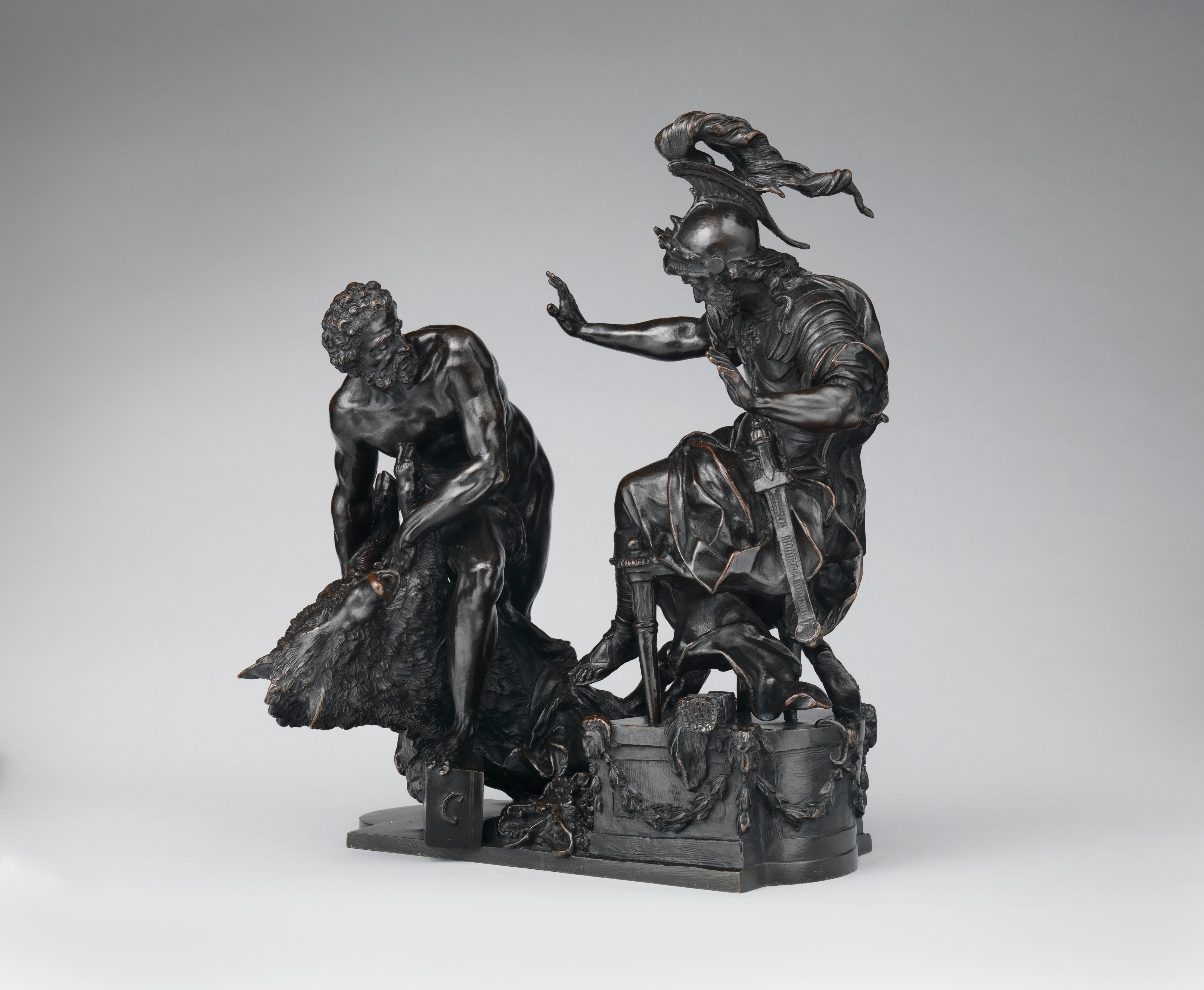 French, probably Paris; Statuette group; Sculpture-Bronze